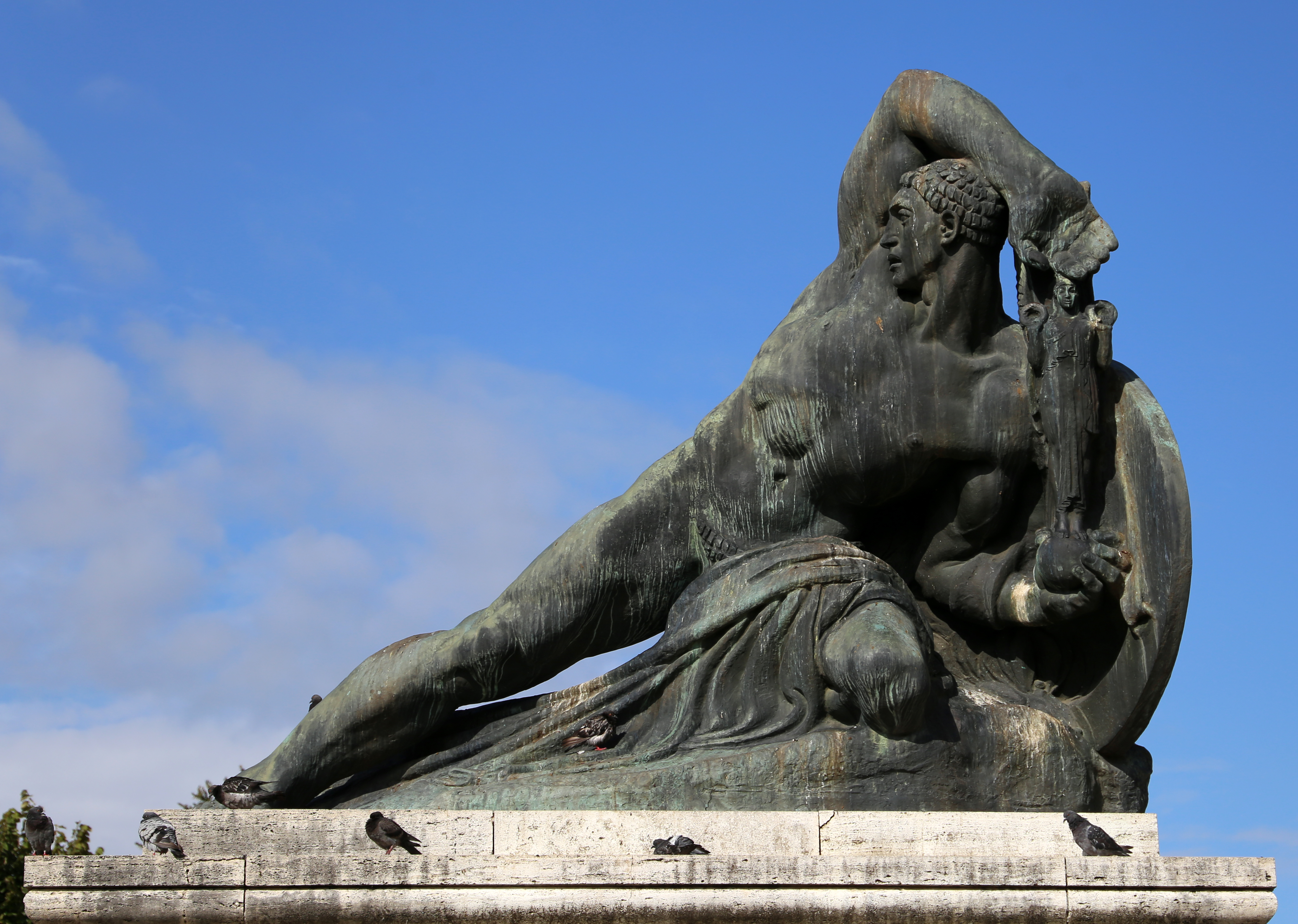 Monumento ai Caduti (Pistoia)